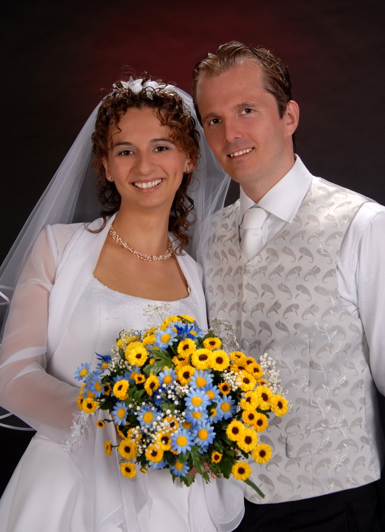 WGM and IM Iweta and IM Vasik Rajlich wedding photo